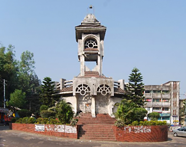 Cheragi Pahar, Chittagong